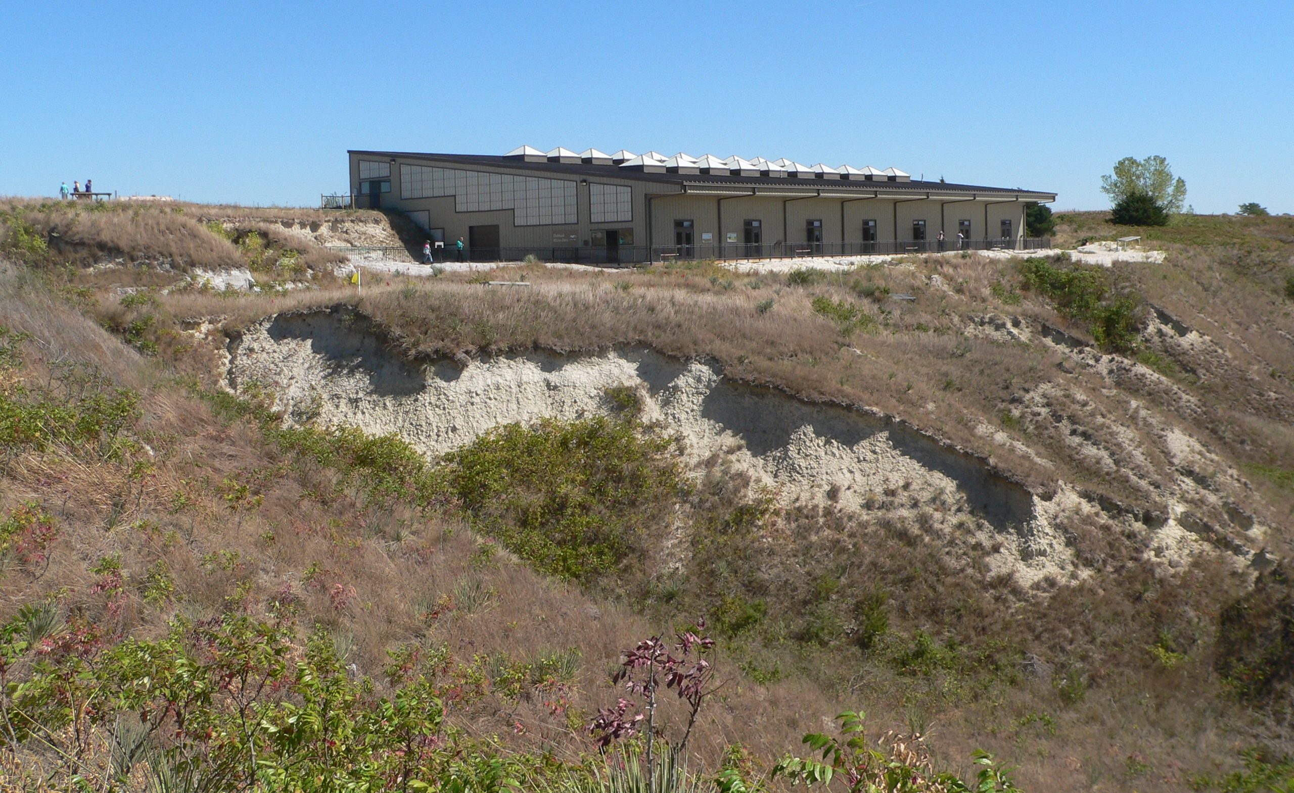 Hubbard Rhino Barn at Ashfall Fossil Beds, Antelope County, Nebraska. A yellow flag poorly visible just below the left edge of the building marks the site of the original fossil discovery.